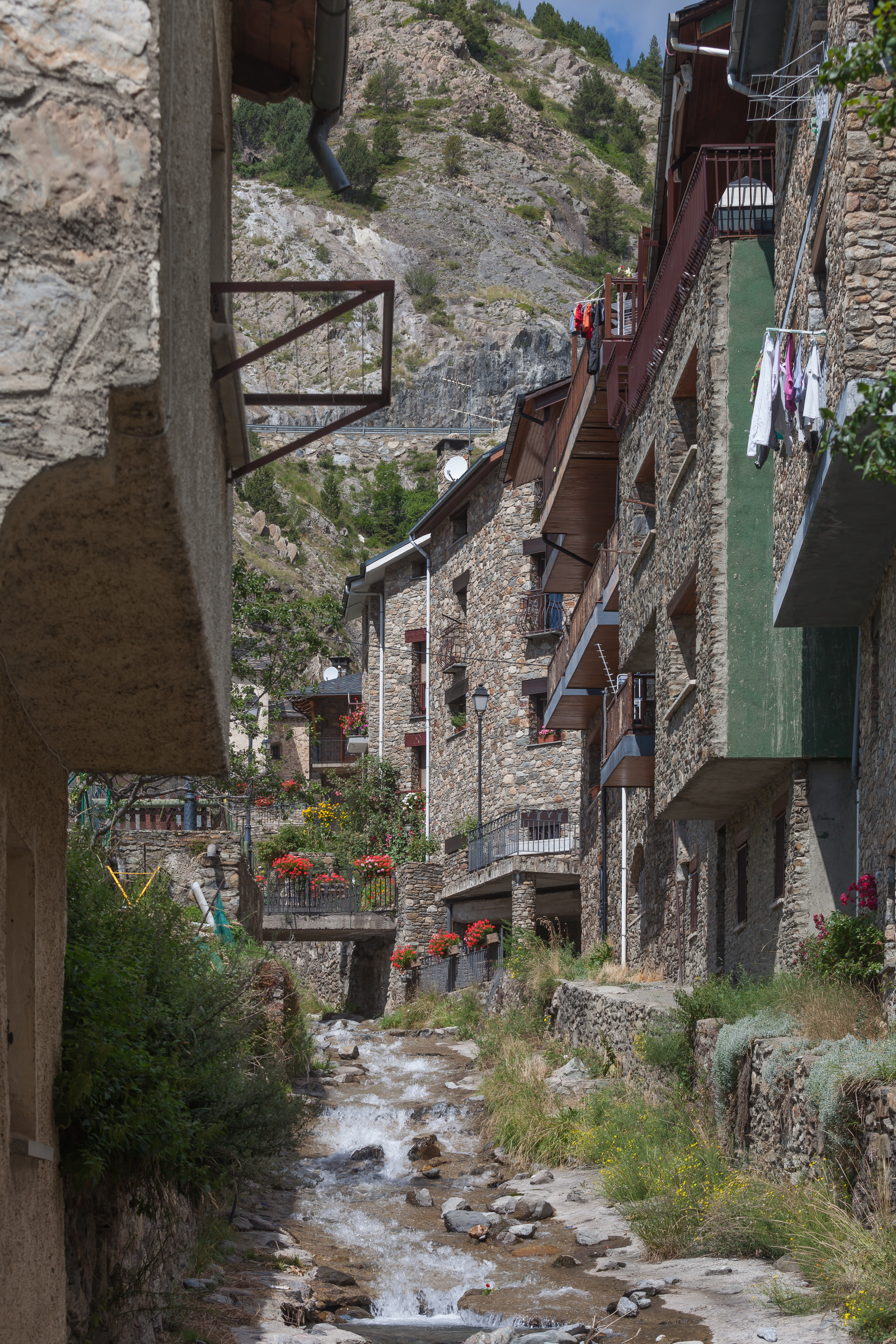 Canillo. Andorra.